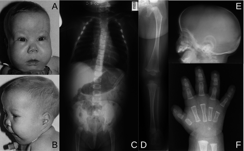 Clinical and radiological features of the patient at 7 months of age. (A, B) Facies with flat nasal root, epicanthic folds, long philtrum, and micrognathia; macrocephaly and low‐set ears. (C–F) Skeletal survey. (C) Hypoplastic scapulae, cervical kyphosis, thoracic scoliosis with undermineralized thoracic pedicles, 11 pairs of ribs, short ischia and unossified inferior pubic rami. (D) Lower limb with straight femur, tibia, and fibula, with delayed ossification of the femoral epiphysis. (E) Lateral skull film showing enlargement of the cranial vault to the size of the facial bones. (F) Hand with short metacarpal I and moderately short middle and distal phalanges.